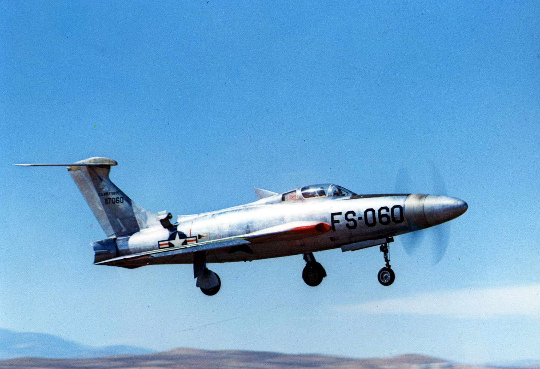 The experimental Republic XF-84H (s/n 51-17060) in flight in 1955/56. Two F-84Fs were converted into experimental aircraft. Each was fitted with a Allison XT40-A-1 turboprop engine of 5,850 shaft horsepower (4,365 kW) driving a supersonic propeller. Ground crews dubbed the XF-84H the "Thunderscreech" due to its extreme noise level.